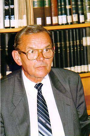 Burghard Burgemeister